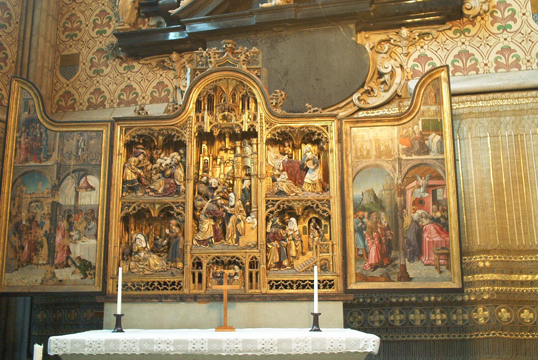 Uppsala Cathedral - altarpiece.